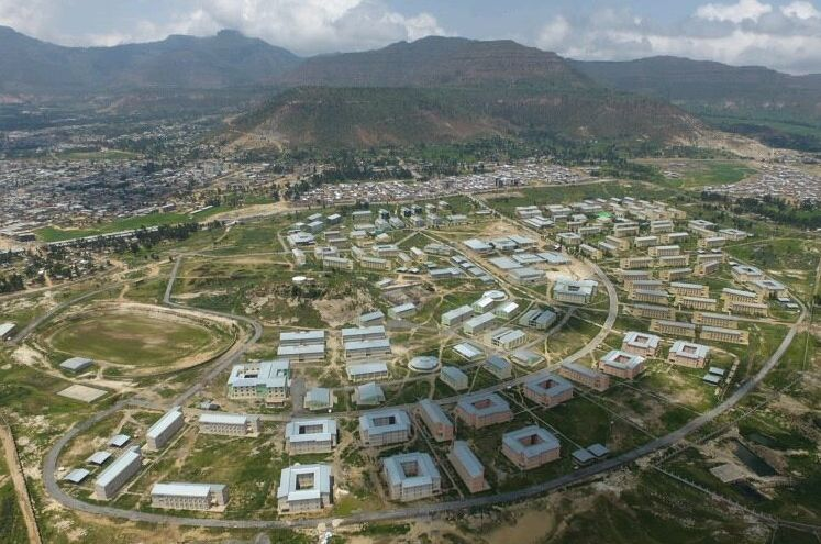 Adigrat University bird's-eye view.